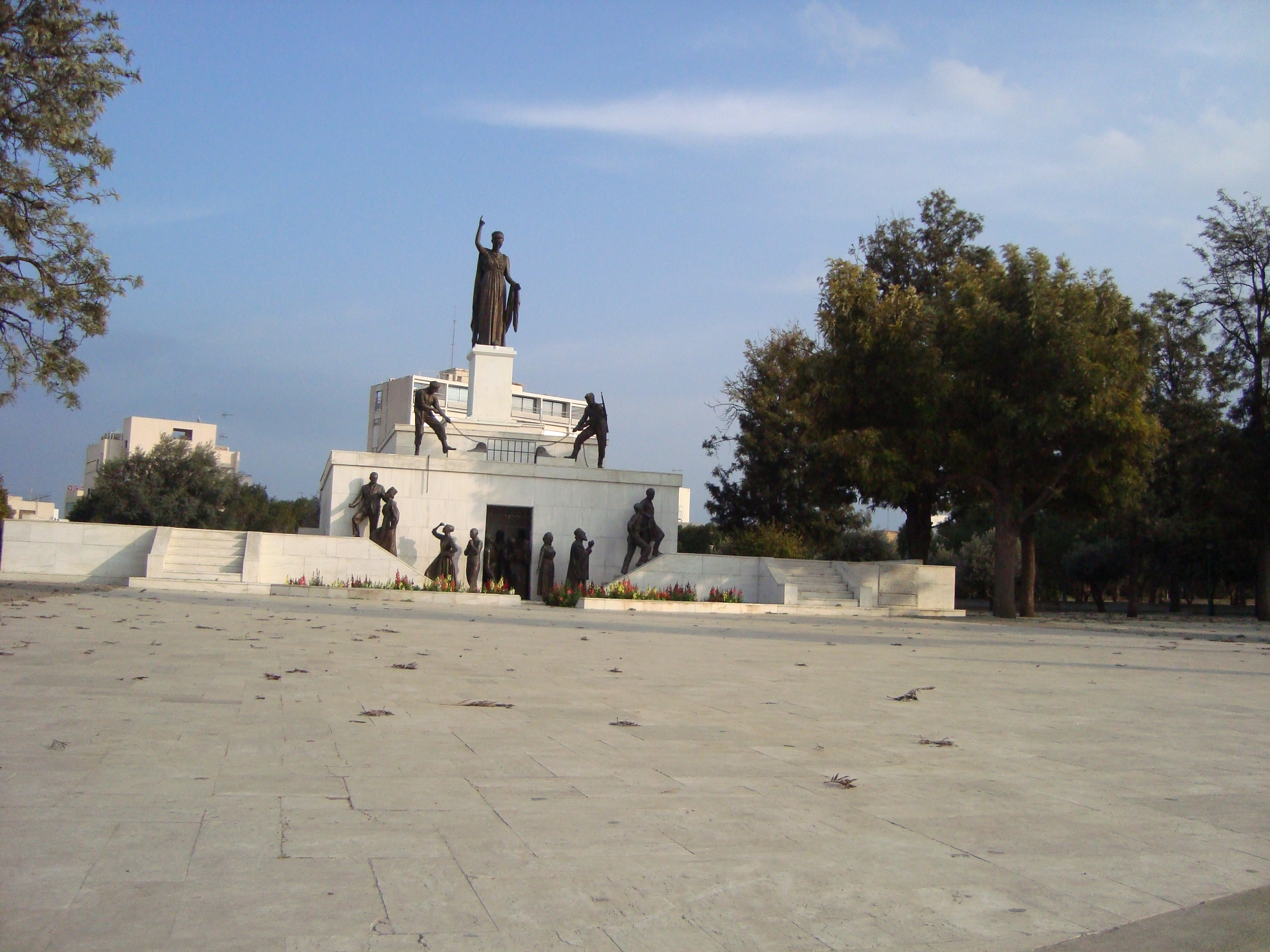 Statue of Liberty grTemplate:Άγαλμα της Ελευθερίας is a statue situated within the Venetian Ancient walls of Nicosia and symbolises the independance of Cyprus from the British Empire